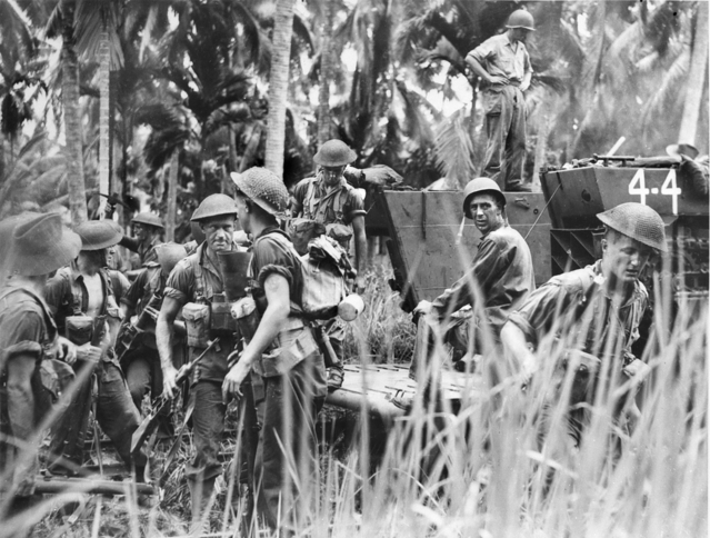 Troops from the Australian 2/32nd Infantry Battalion conduct land at Weston, British North Borneo, aboard US-crewed landing vehicles